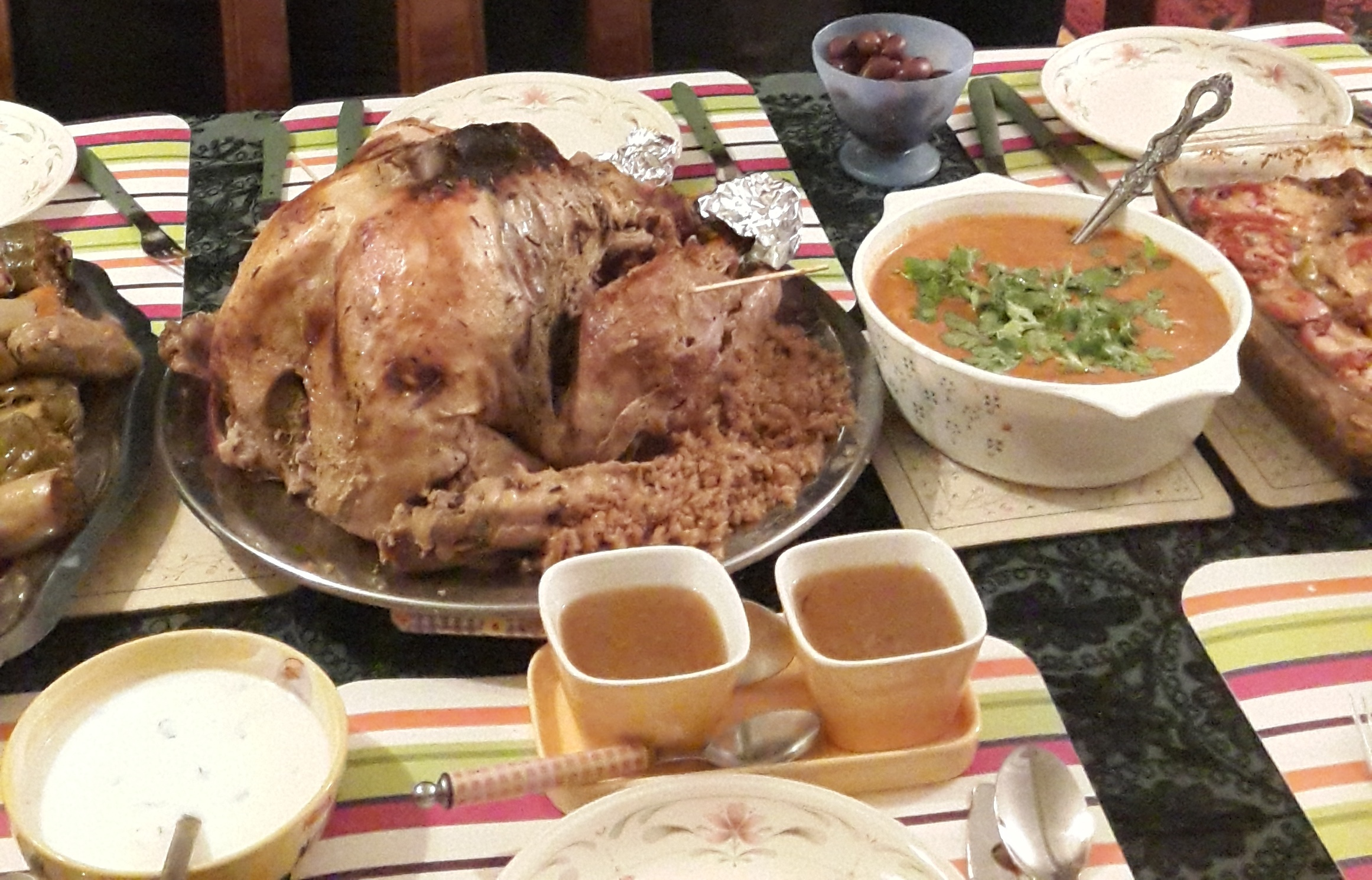 Egyptians cook Turkey not in special feasts, but often when they are having a large number of guests because it can offer plenty of delicious servings and is popular when you are hosting people. It is usually served over a bed of Rice with Khalta (brown rice with Almonds, Pine Nuts and Raisins. Photo By Wael Nawara This is an image of food from Egypt